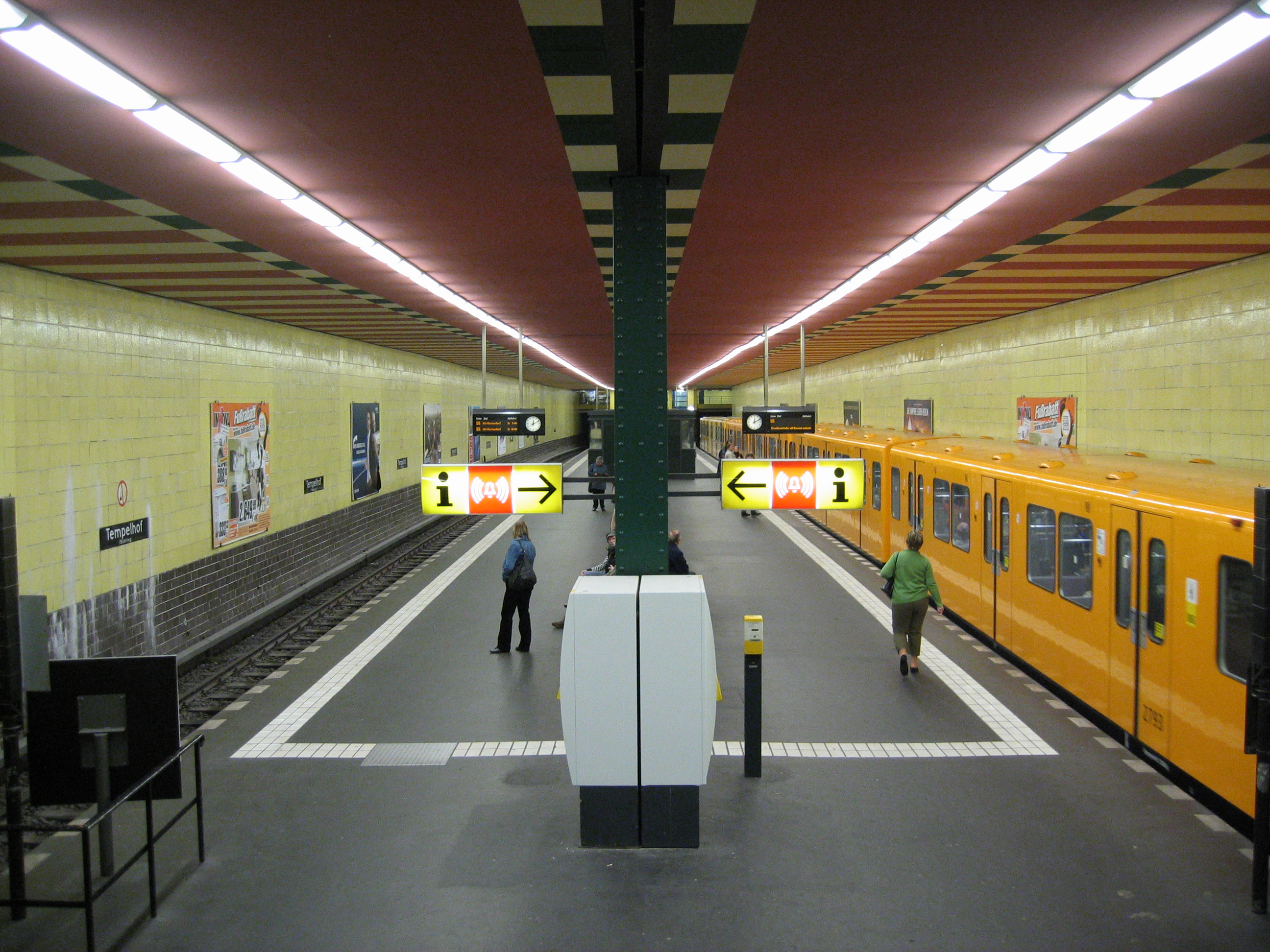 U-Bahnhof Tempelhof, Berlin